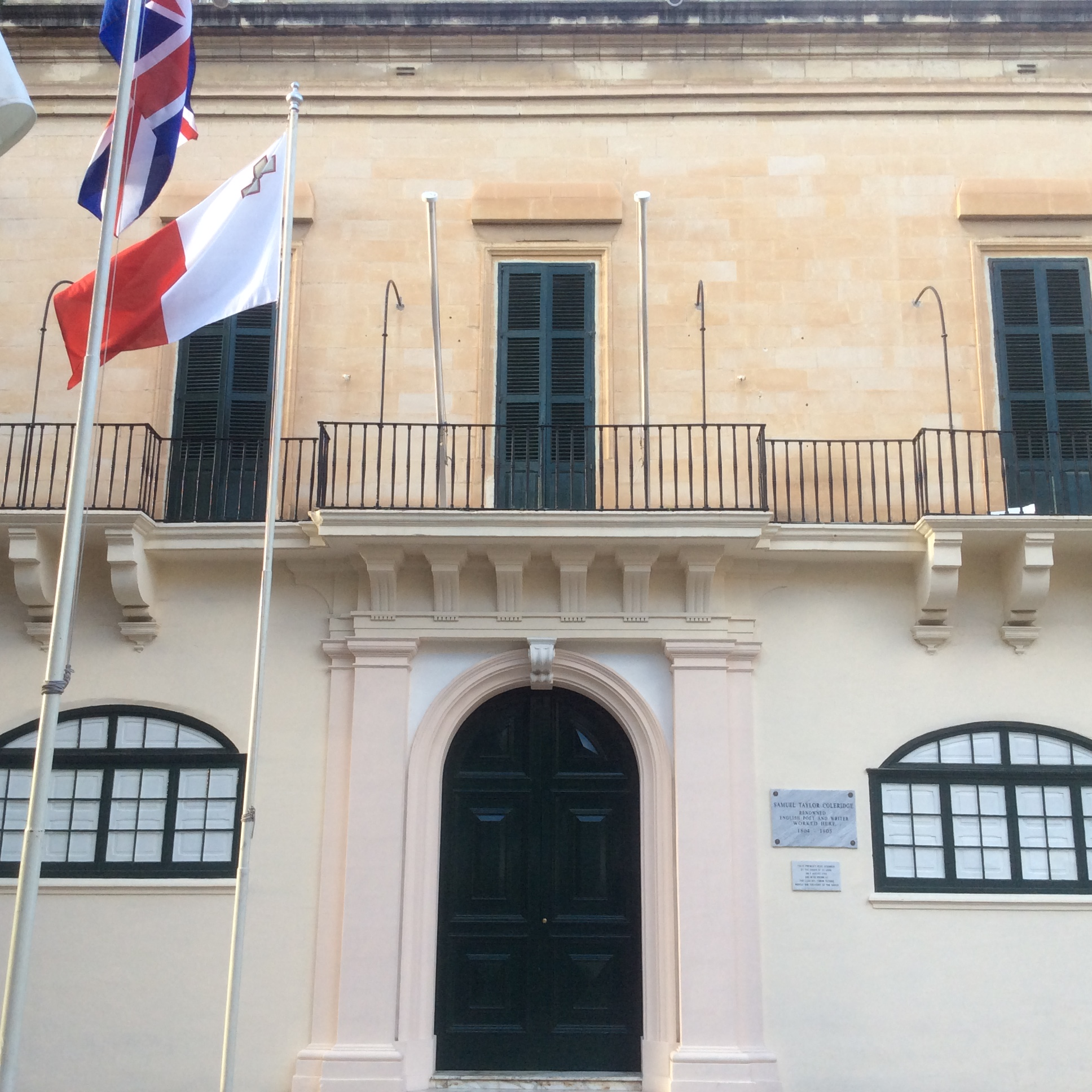 Casino Maltese - Knights Treasury - Valletta Malta